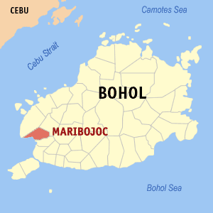 Map of Bohol showing the location of Maribojoc